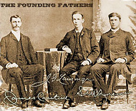 Founding Fathers of Arabian Mission for the Reformed Church of America, taken about 1889 or 1890